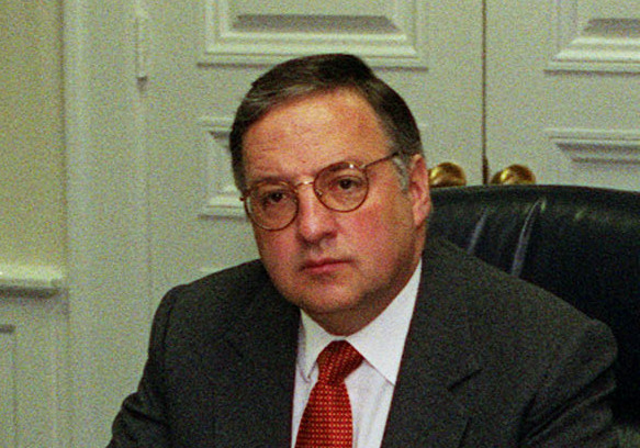 Secretary of Defense William S. Cohen (left) hosts a Pentagon plenary session with Mexican Secretary of National Defense Gen. Enrique Cervantes (right) and Mexican Ambassador Jesus Reyes-Heroles (center) on Jan. 31, 2000. The two defense leaders and their senior advisors are meeting to discuss a range of bilateral and regional security issues.